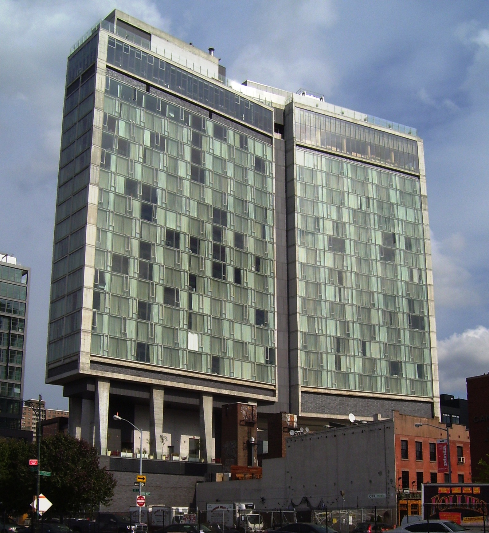 The Standard Hotel in the Meatpacking District of Manhattan, New York City as seen from West Street.